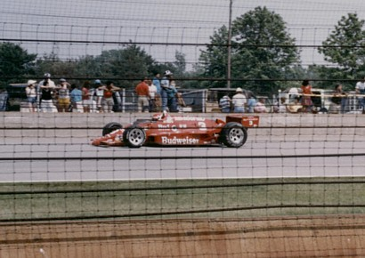 Bobby Rahal at the 1986 Indianapolis 500 on a March-Cosworth